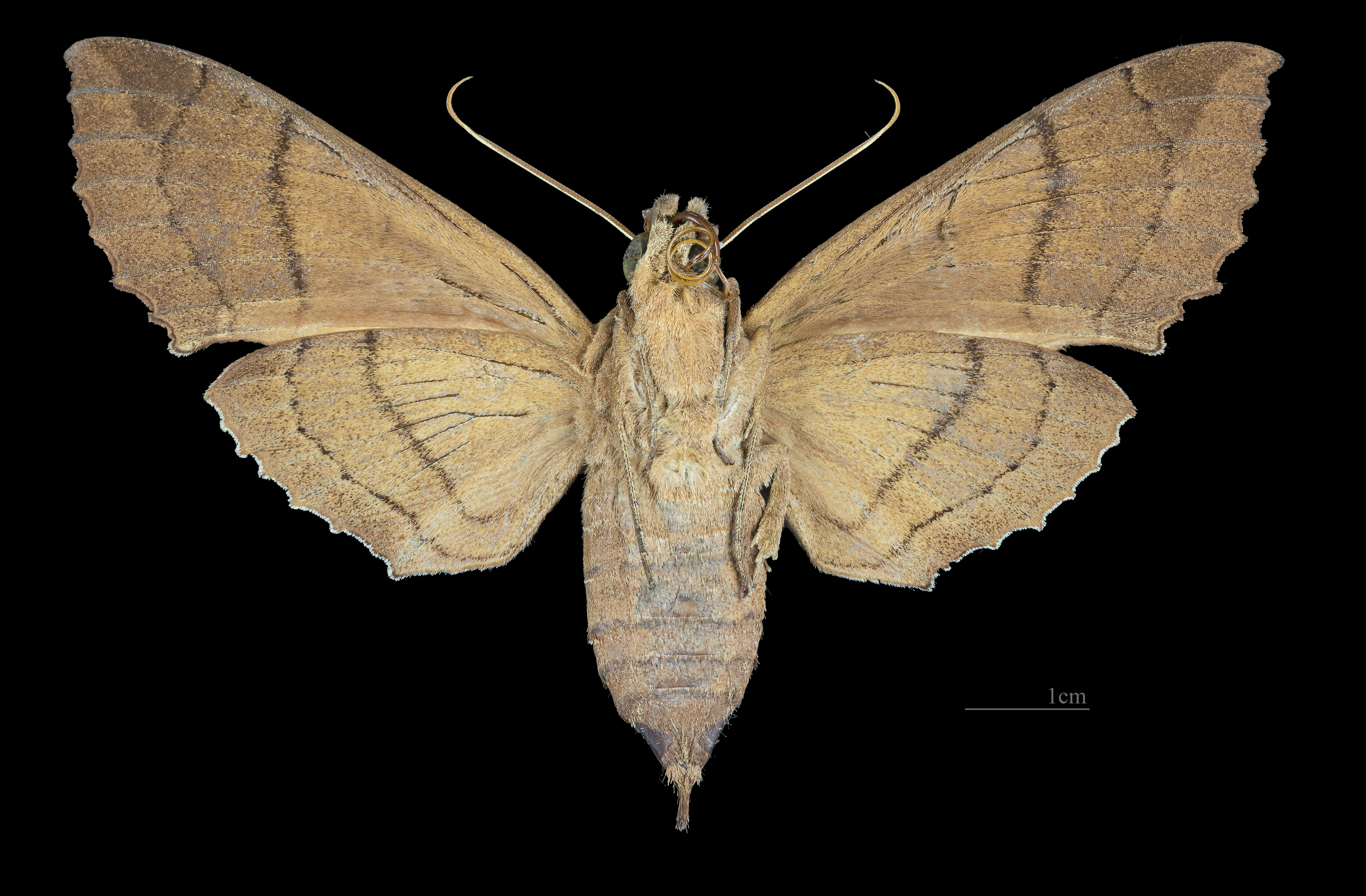 Kloneus babayaga - △ Ventral side Collection of the Mathematician Laurent Schwartz